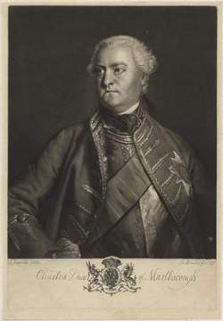 Mezzotint of Charles Spencer, 3rd Duke of Marlborough, after a portrait by Joshua Reynolds